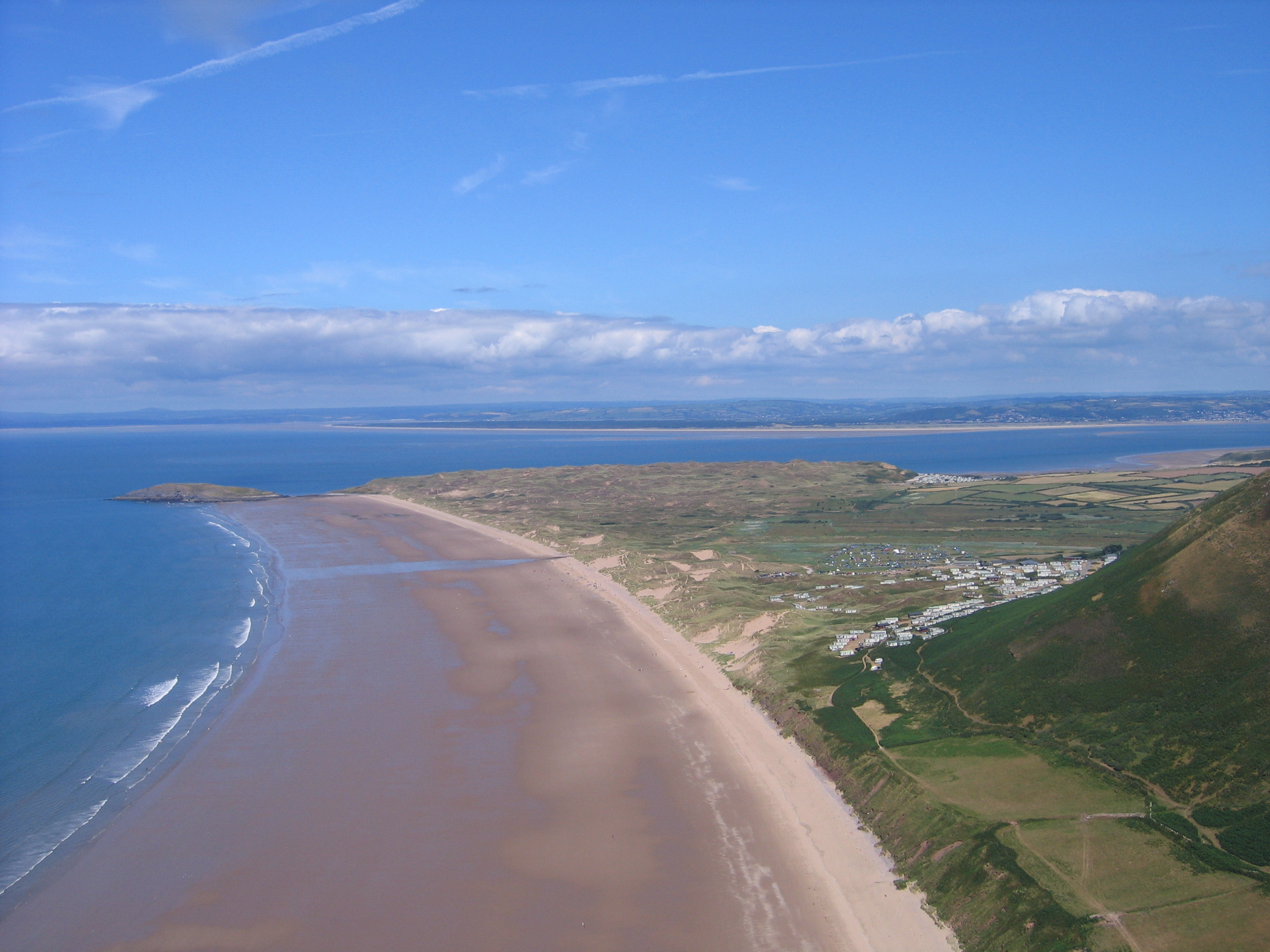 Taken by me from the air flying a paraglider over Rhossili Down. Burry Holms in Wales is the small island off the beach to the left of the image. Loughor estuary in the background.